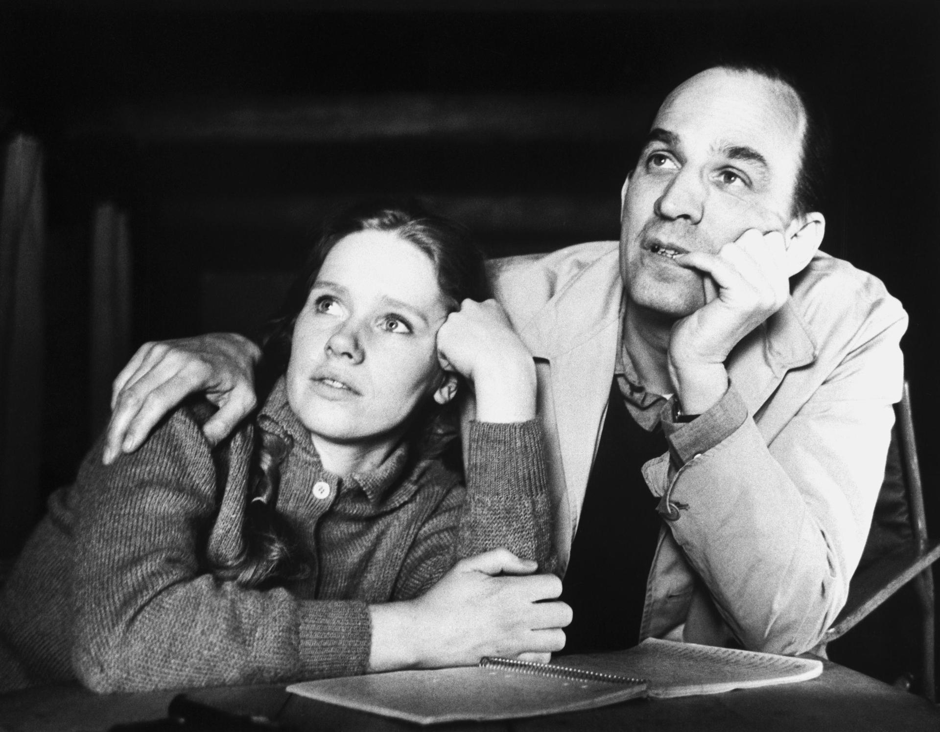 Publicity photograph of the Swedish actor Liv Ullmann and the Swedish director Ingmar Bergman during the shooting of Persona.